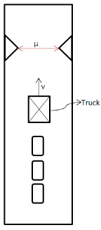 Truck movement causing bottleneck